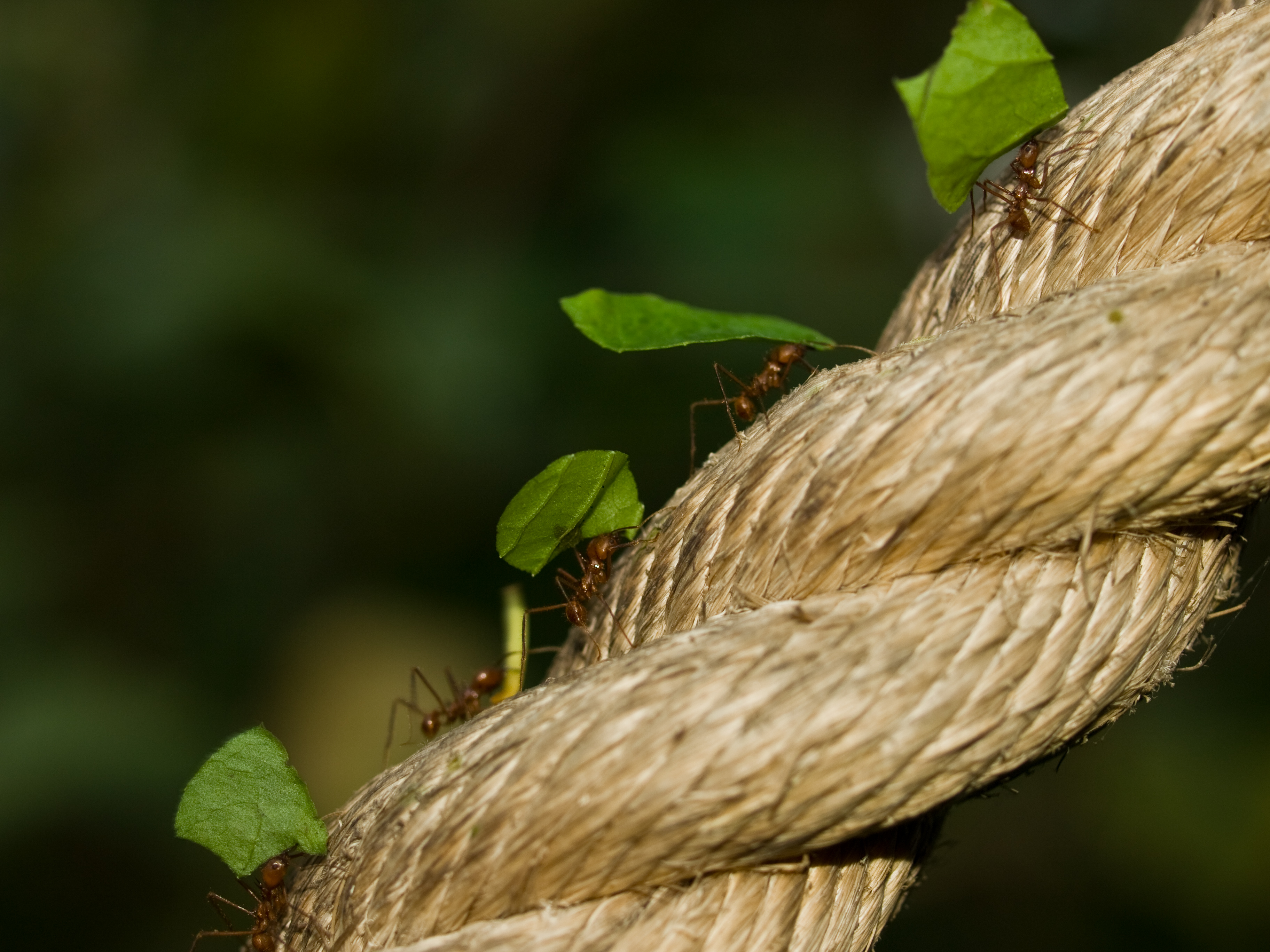 Leaf cutting ants at the London Butterfly House in Syon Park